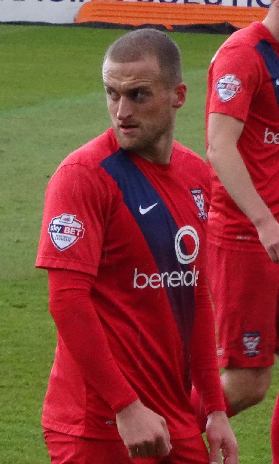 Lewis Alessandra playing for York City against Bristol Rovers at Bootham Crescent, York on 30 April 2016